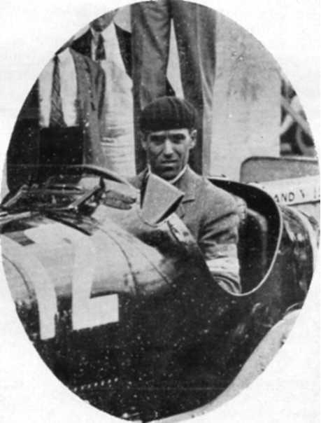 Tazio Nuvolari, winner of the 1933 Nîmes Grand Prix (Alfa Romeo Monza 2.6)